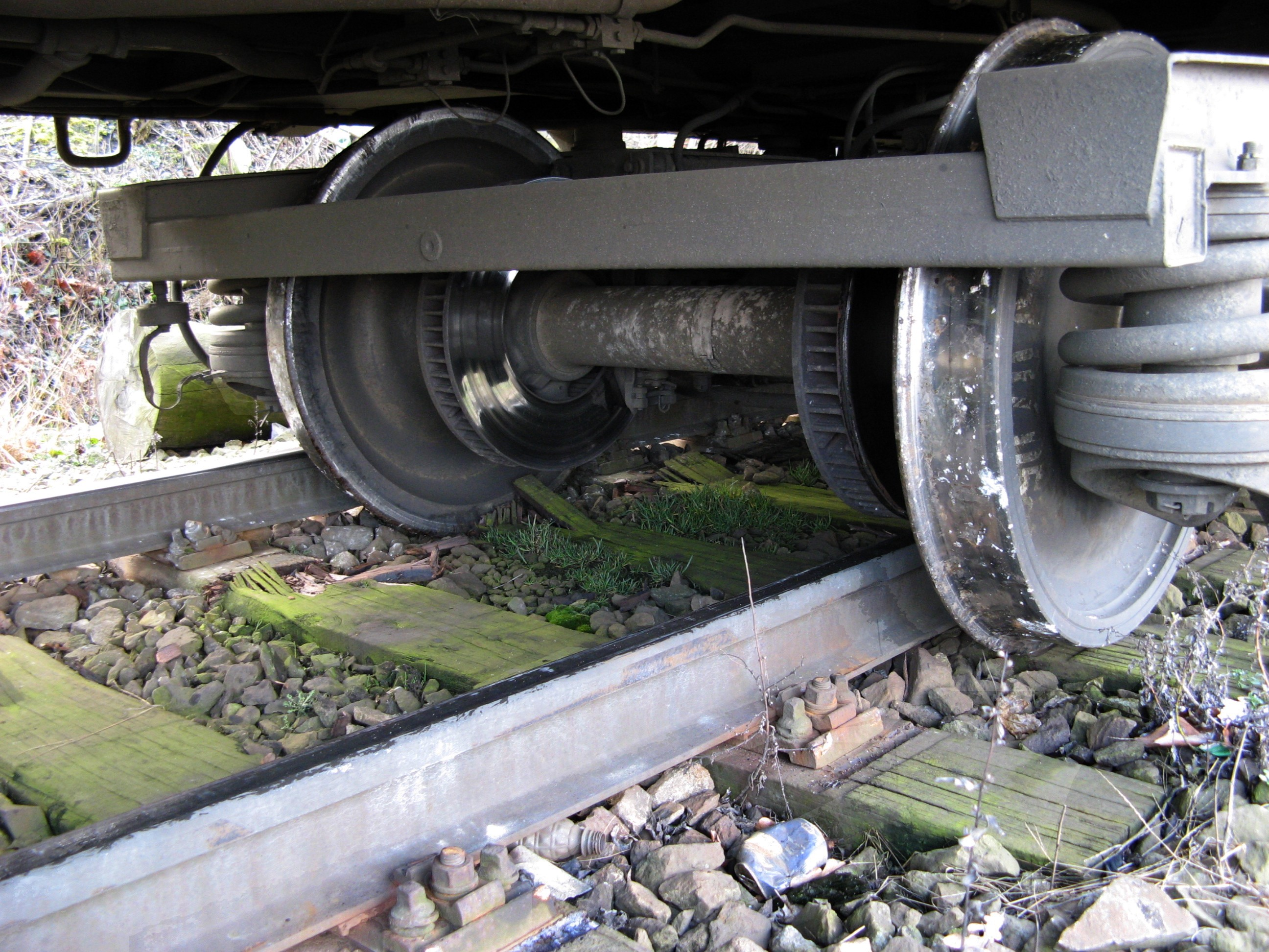 Derailment of train EC 107 (Prague-Warsaw) in Prague on 17th February 2007